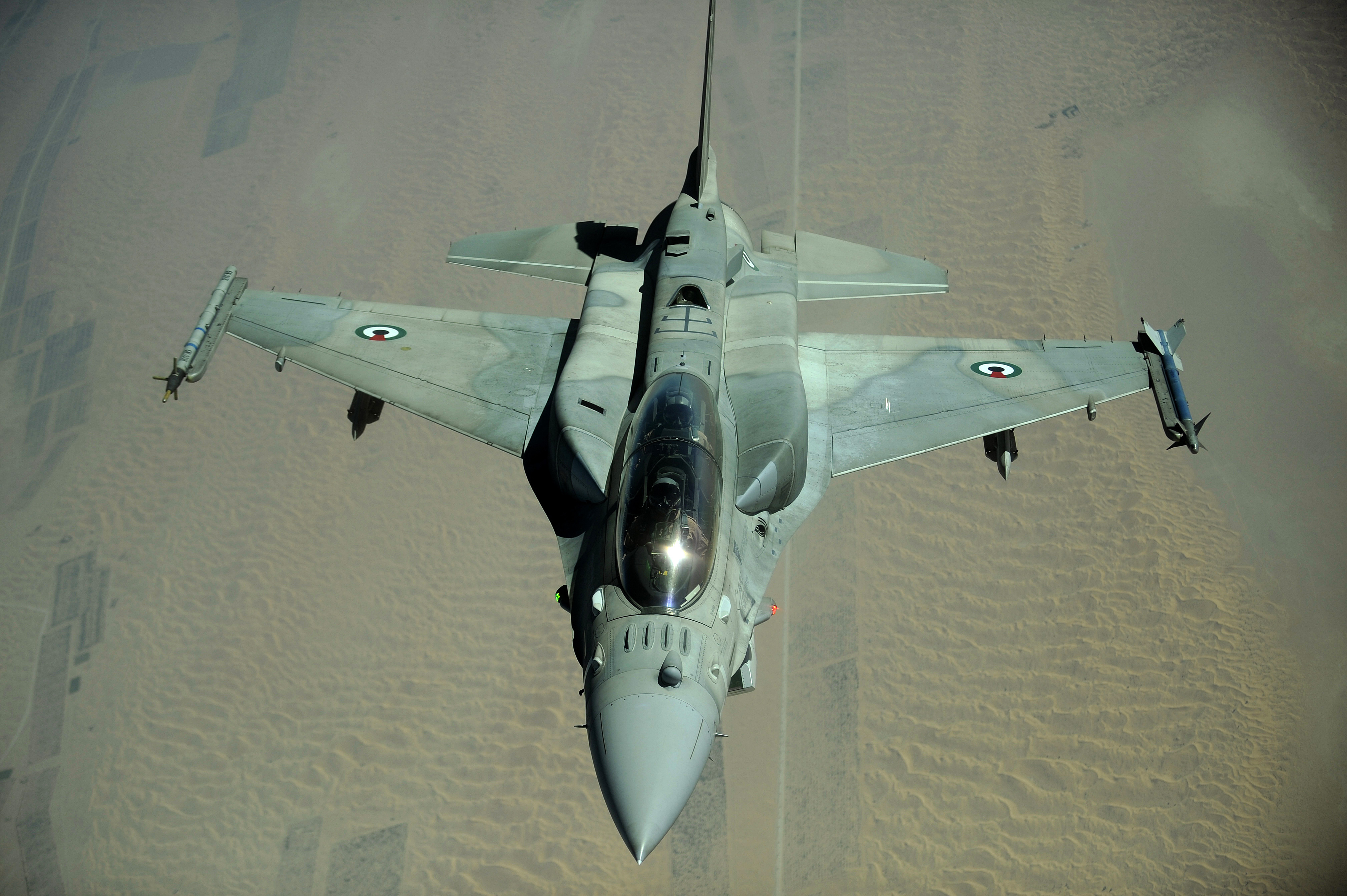 An Emirati F-16F Fighting Falcon aircraft departs a KC-10A Extender aircraft from the 908th Expeditionary Air Refueling Squadron after refueling during a multinational exercise December 7th, 2009, in Southwest Asia.